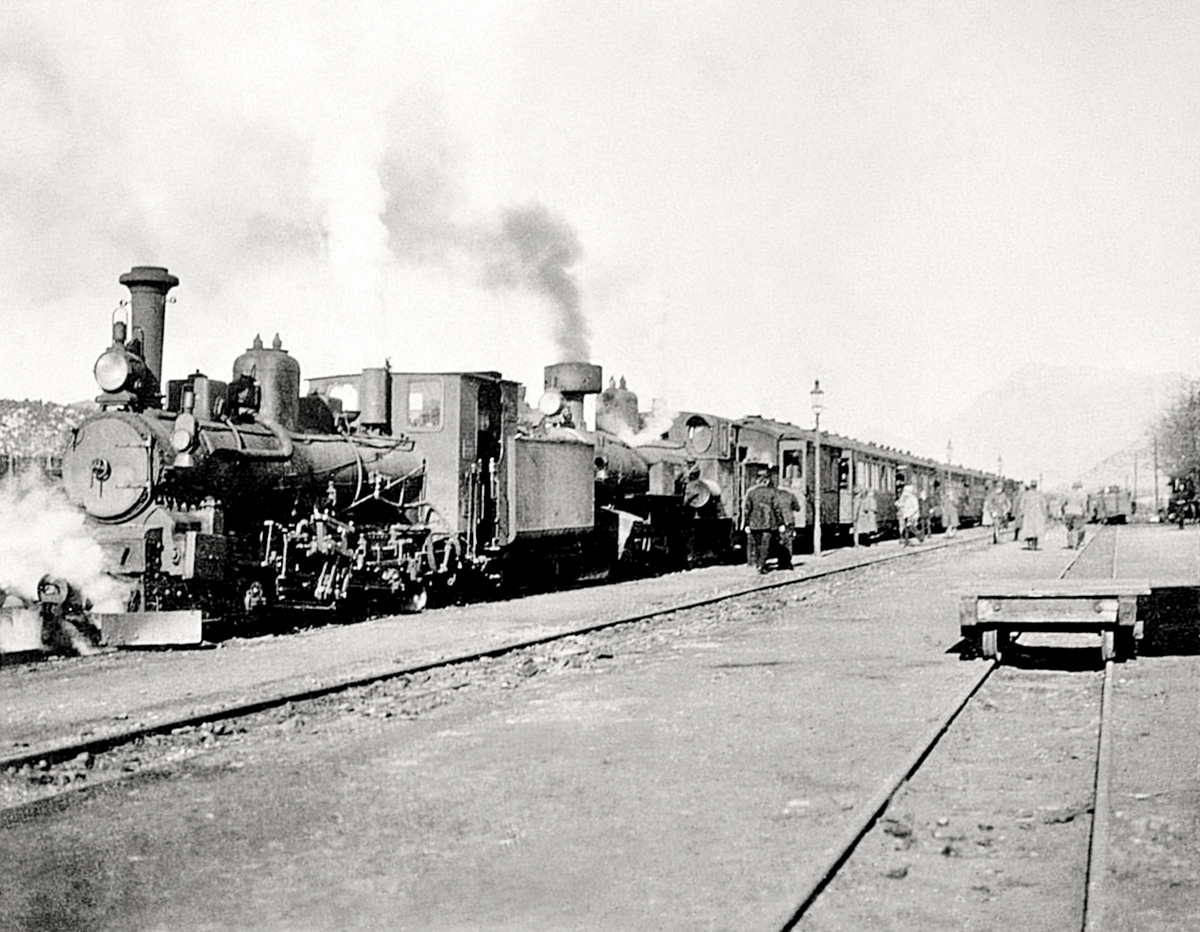 Lunch break at the railway station Hum during the trip of the Austro-Hungarian Army Command to Kotor on February 12, 1916.